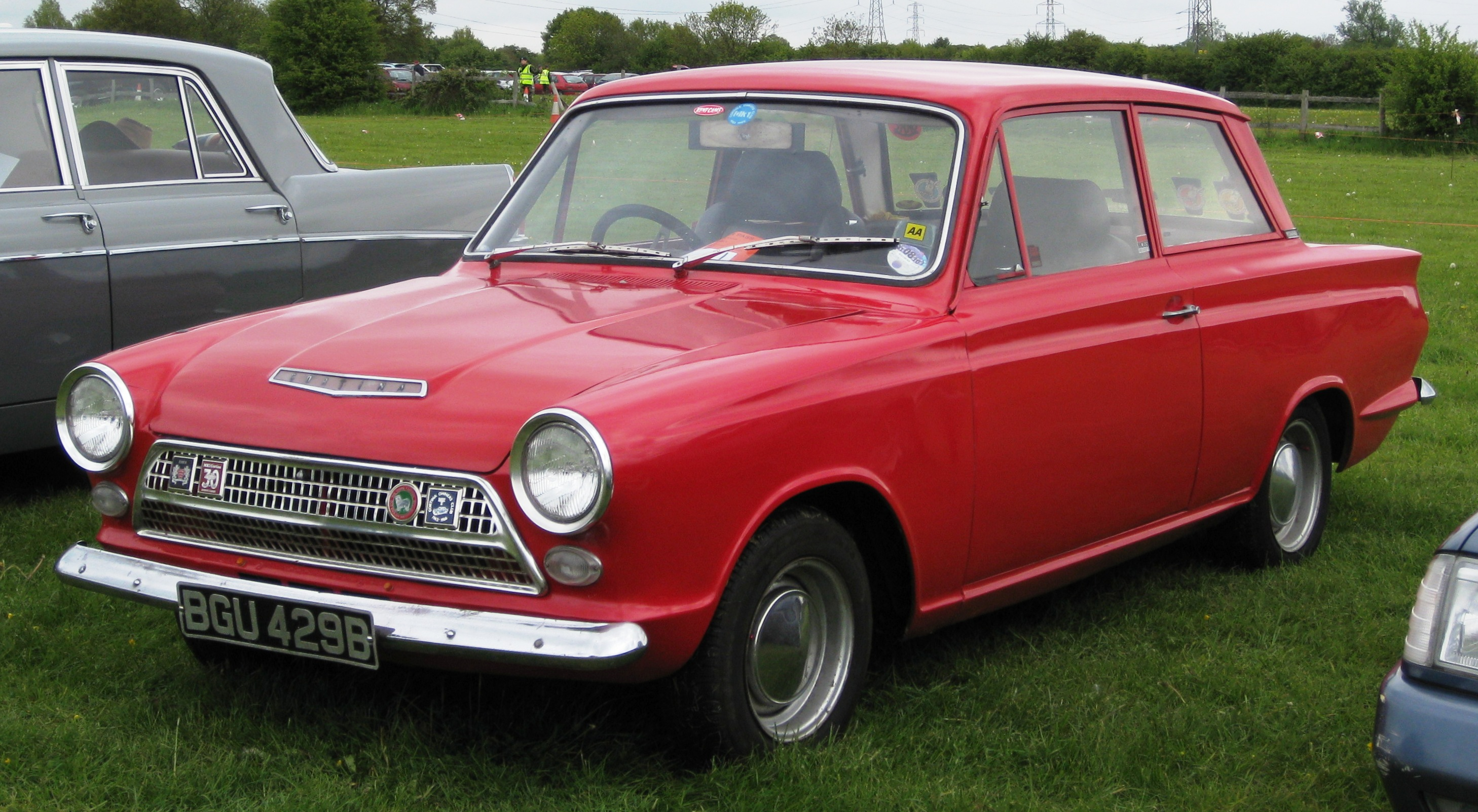 Ford Cortina Mark I 2-door before they rearranged the front and introduced "airflow" ventilation. I'm not sure they were ever this red back in 1964, though.